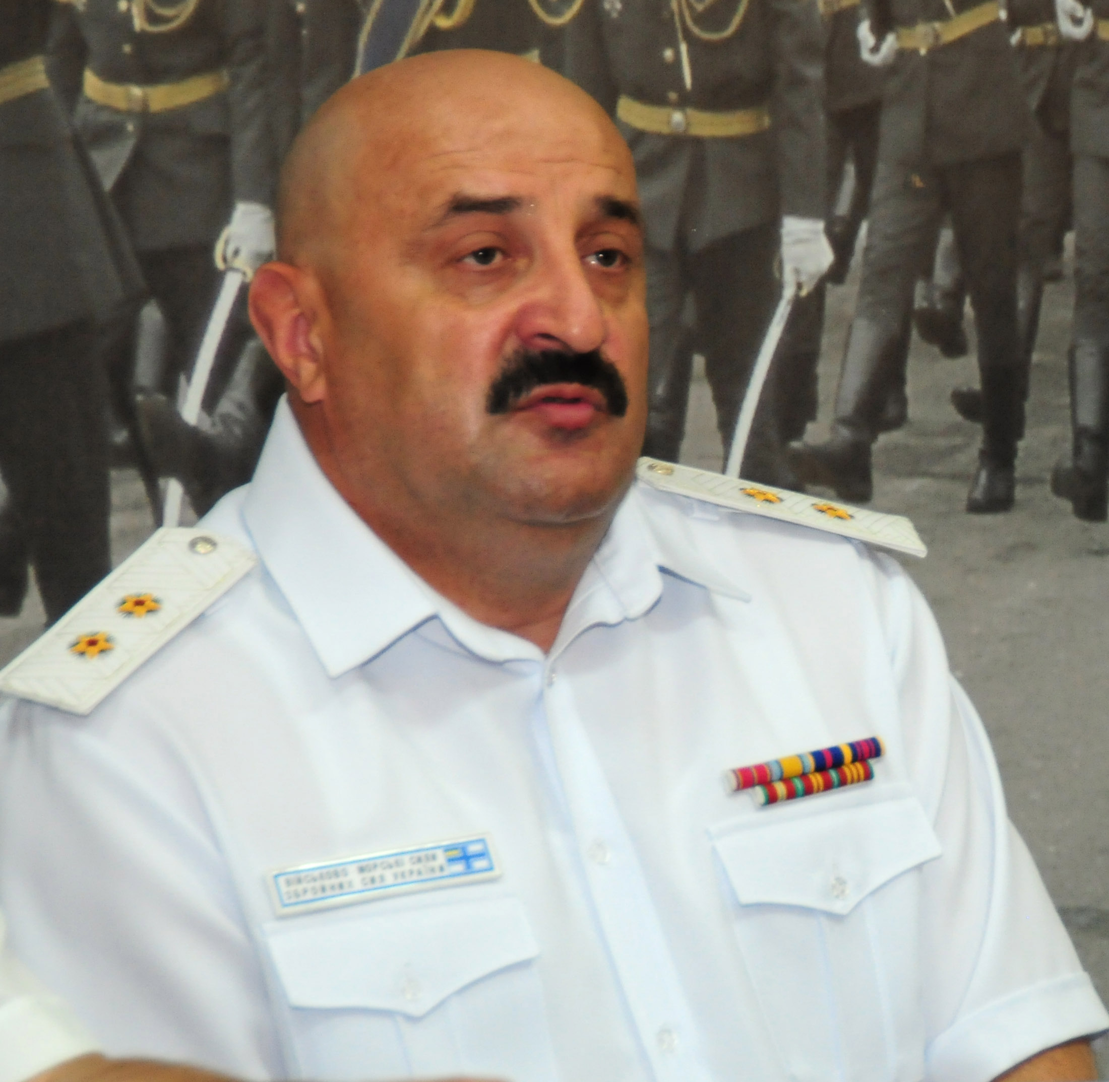 Cropped image of Ukrainian Admiral Yuriy Ilyin.